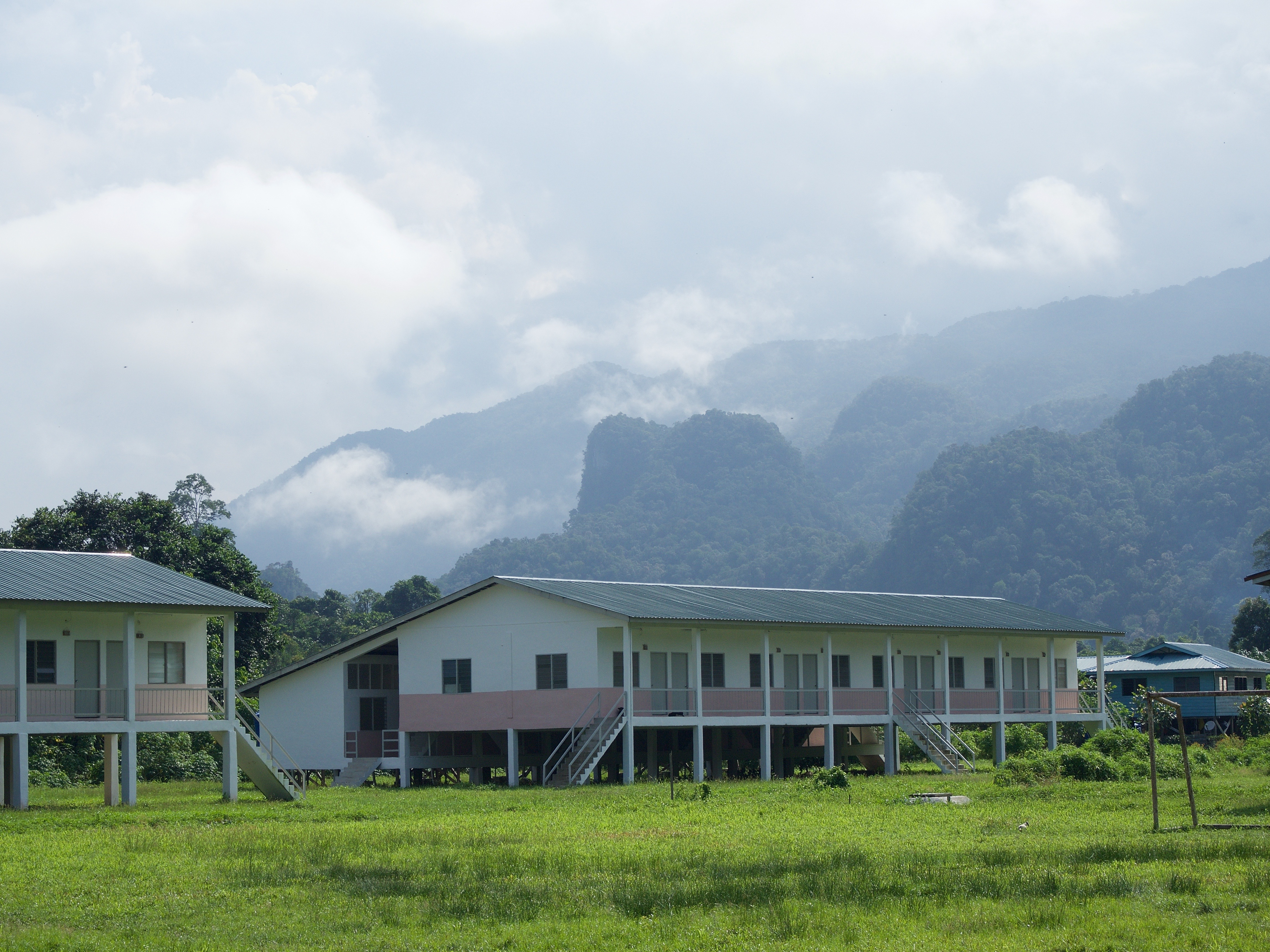 Penan Village on the Melinau River, adjacent to Gunung Mulu National Park, Sarawak, Borneo